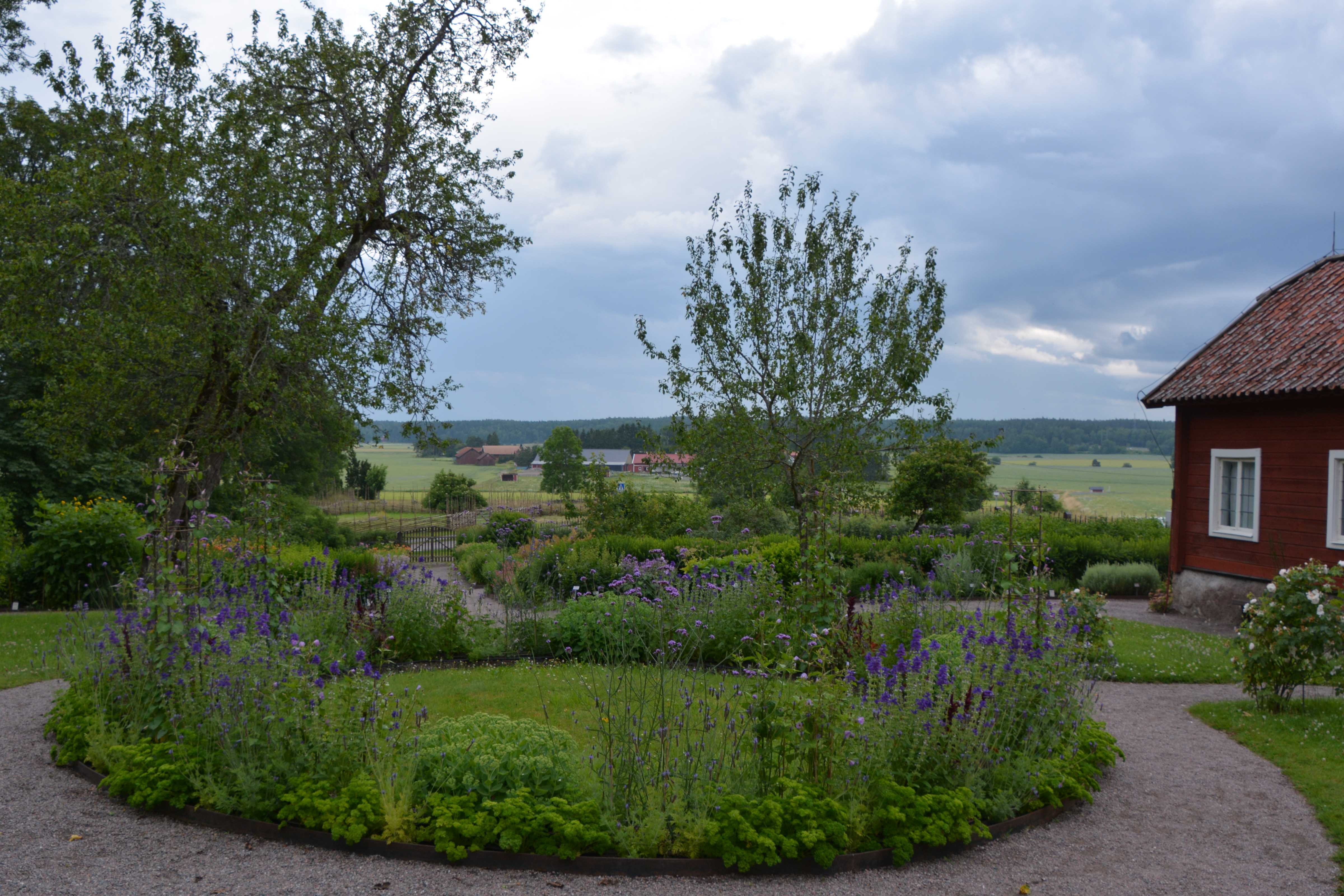 Utsikt över slätten från Linnés Hammarby